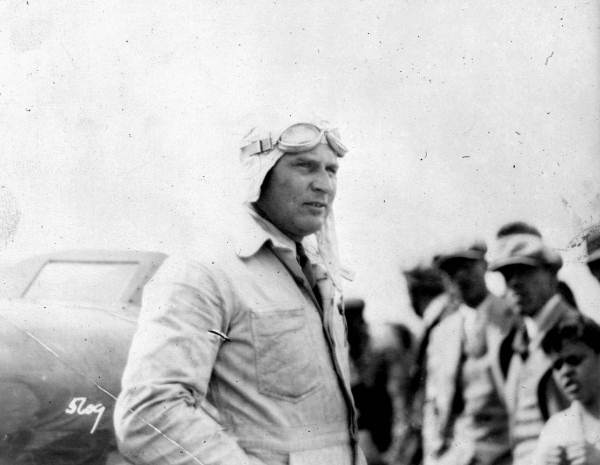 Ray Keech in front of the White Triplex land speed record car